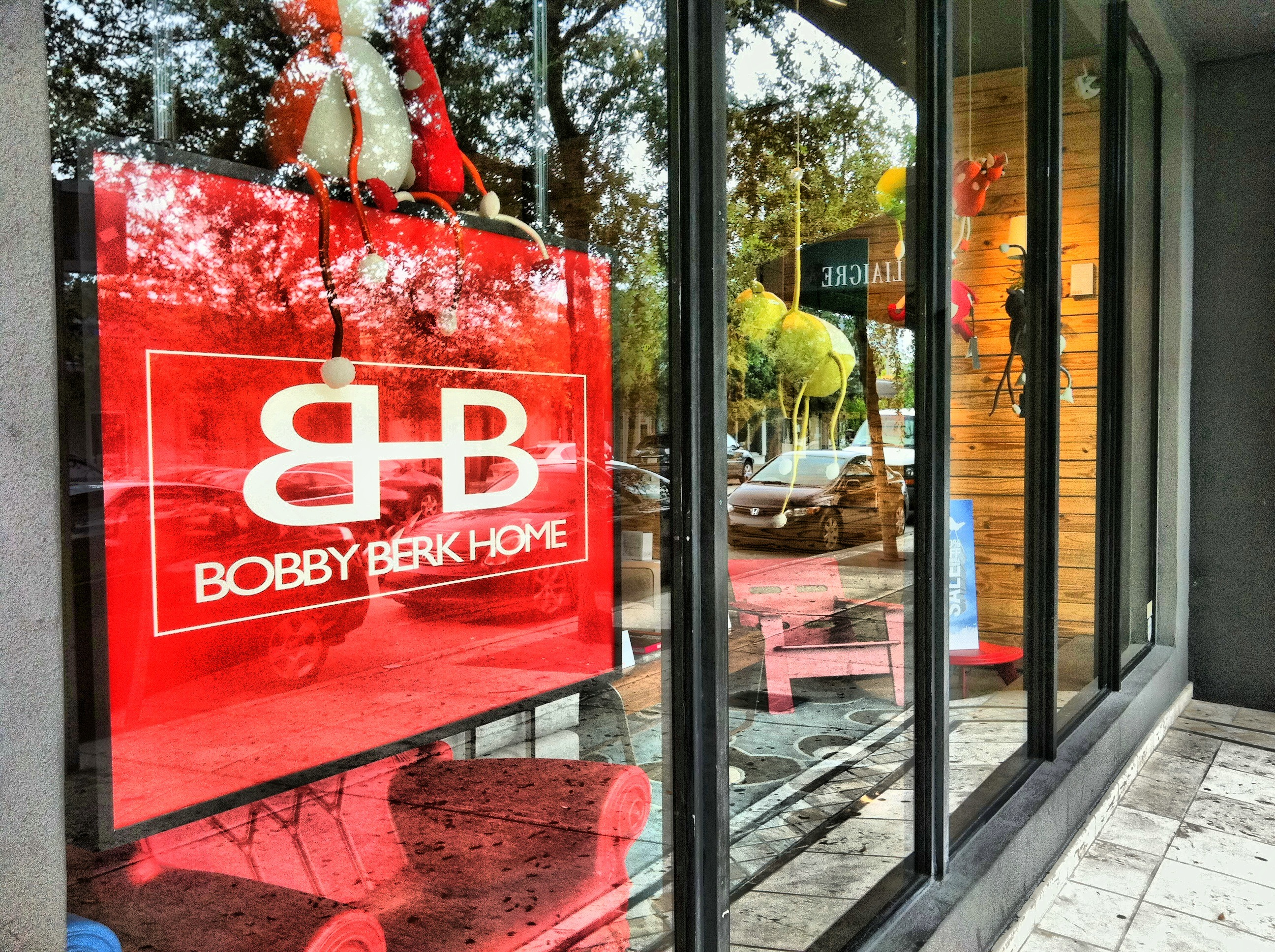 Posted via email from Ines yet again